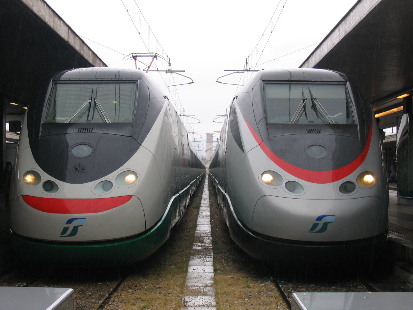 Two ETR500 Politensione. Left with standard paintwork, Right with TAV paintwork in Roma Termini. Author: Jollyroger. 2 june 2006